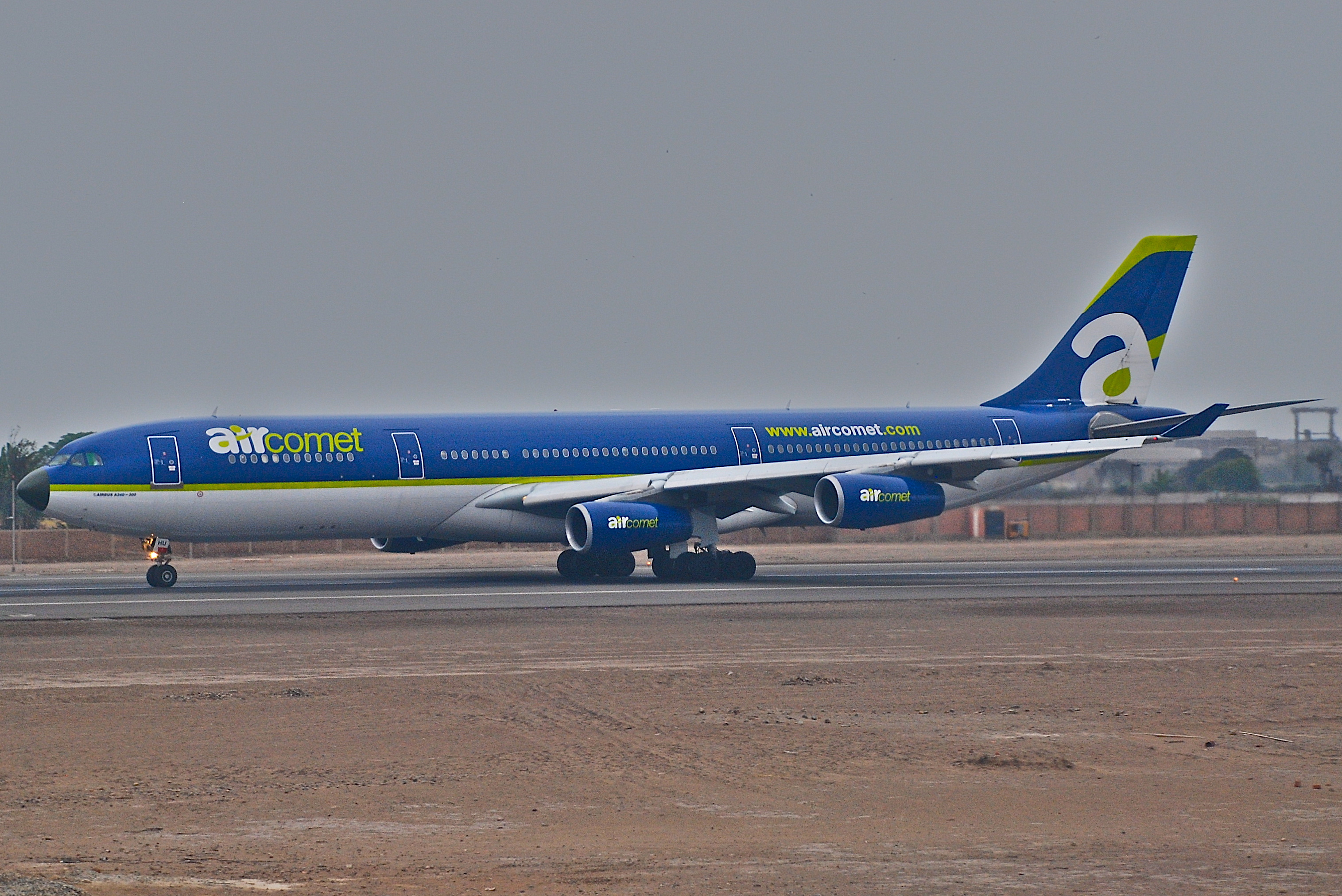 First flight: January 15, 1993...(c/n 7) 26/02/1993 Air France F-GLZB stored at CDG 04/2005 07/06/2005 Air Madrid EC-JIS suspended operations December 16, 2006 - stored at BOD 17/07/2007 Air Comet EC-KHU ceased operations December 21, 2009 - stored at MAD as EI-ELH, scrapped 03/2011